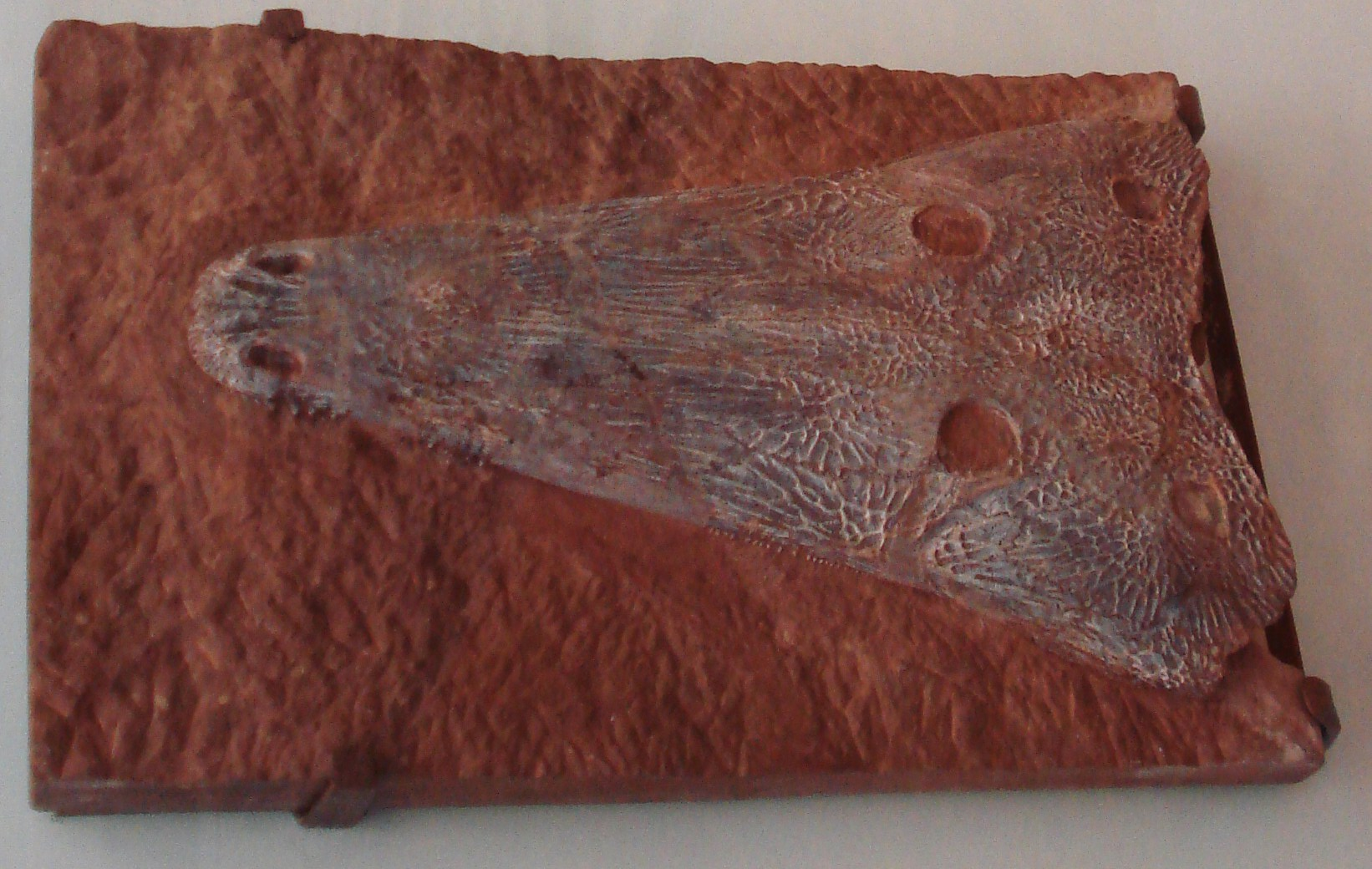 fossil of eocyclotosaurus